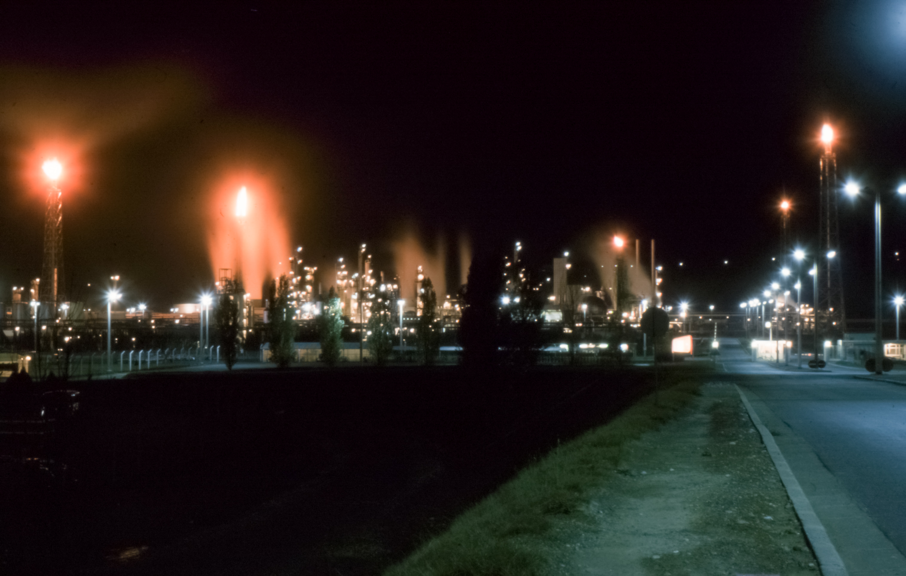 The site S.N.P.A. active.